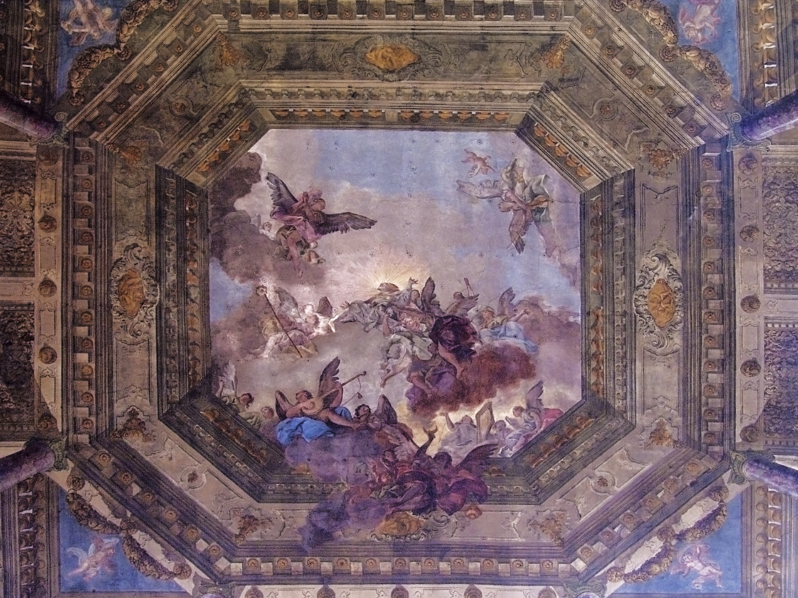 San Martino church, the central ceiling fresco from Domenico Bruni, "Gloria di San Martino" - Venice.